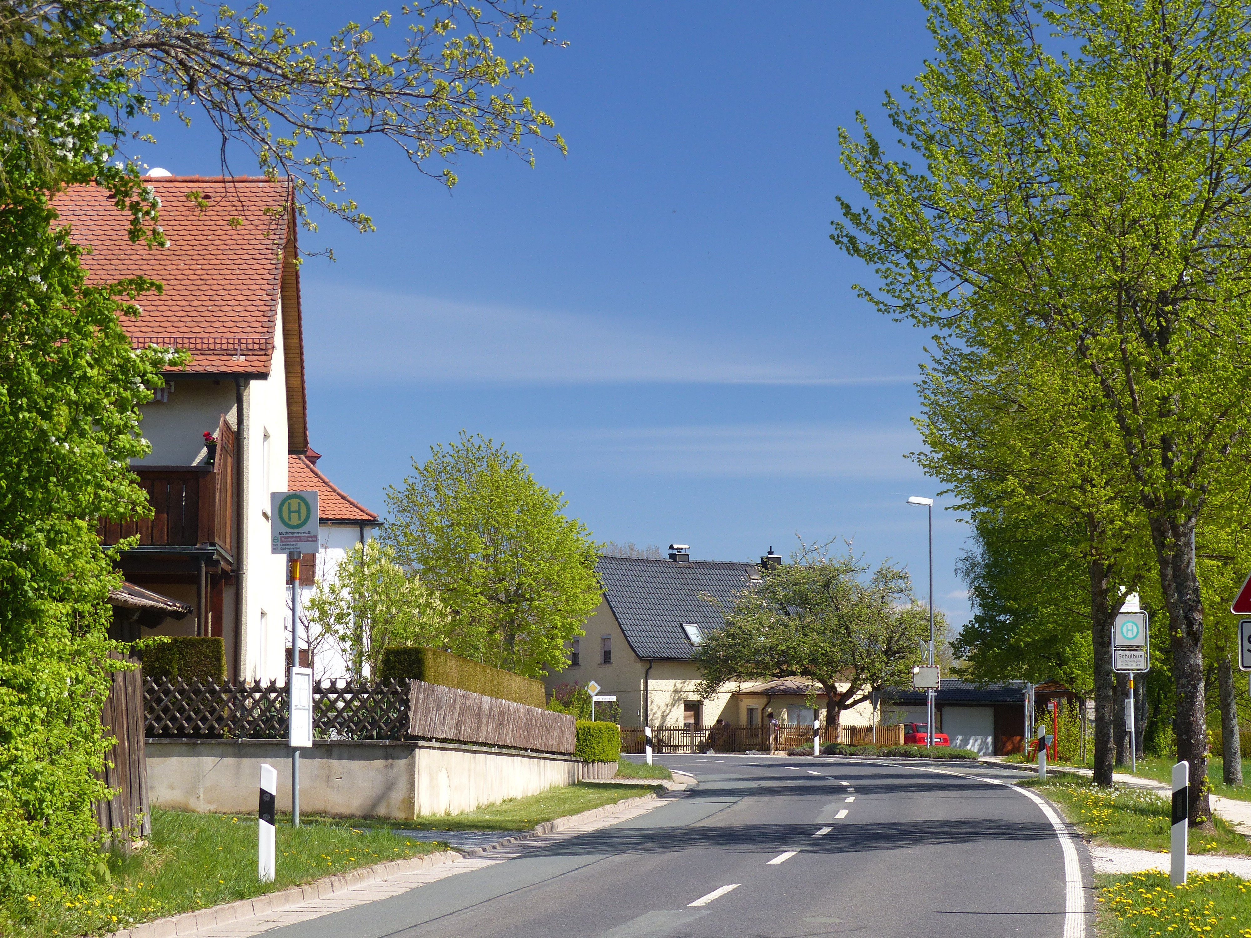 The village Muthmannsreuth, a district of the municipality of Hummeltal.